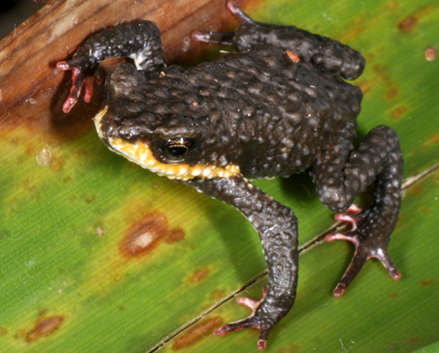 crop of File:Melanophryniscus xanthostomus males.png